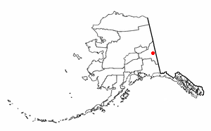 Adapted from Wikipedia's AK borough maps by Seth Ilys.